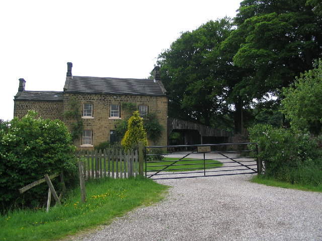 Holdgate farm, Emmerdale Village. This is the location of Holdgate Farm which is featured in the TV series Emmerdale, the village of Emmerdale has been rebuilt in this area and filming takes place 4 or 5 days a week.